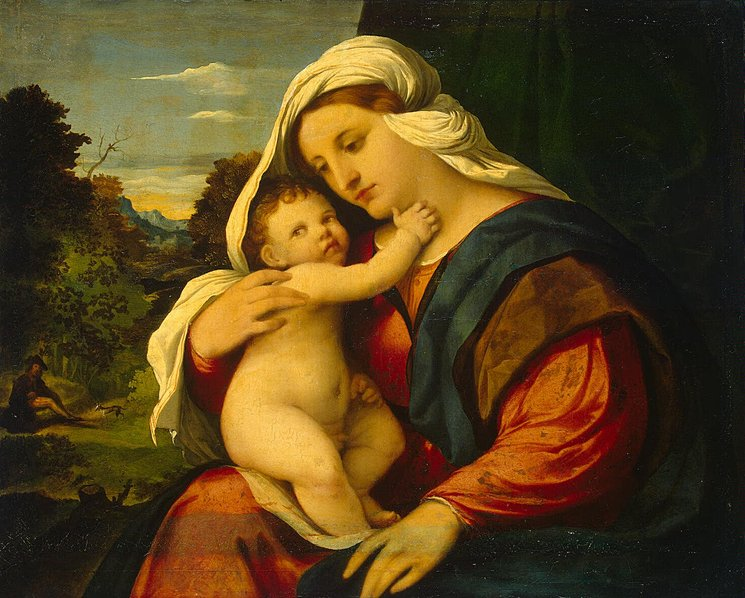 Author: Jacopo Palma il Vecchio Painting, Oil on canvas, 59x72 cm Origin: Italy, 1515/1516 Personage: Madonna and Child Source of entry: via the State Museum Fund from the collection of V.D. Nabokov, Petrograd, 1919 School: Venetian Theme: The Bible and Christianity Exibition: Italian Art: 13th - 18th centuries